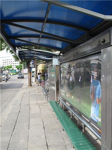 bus stop of NIDA